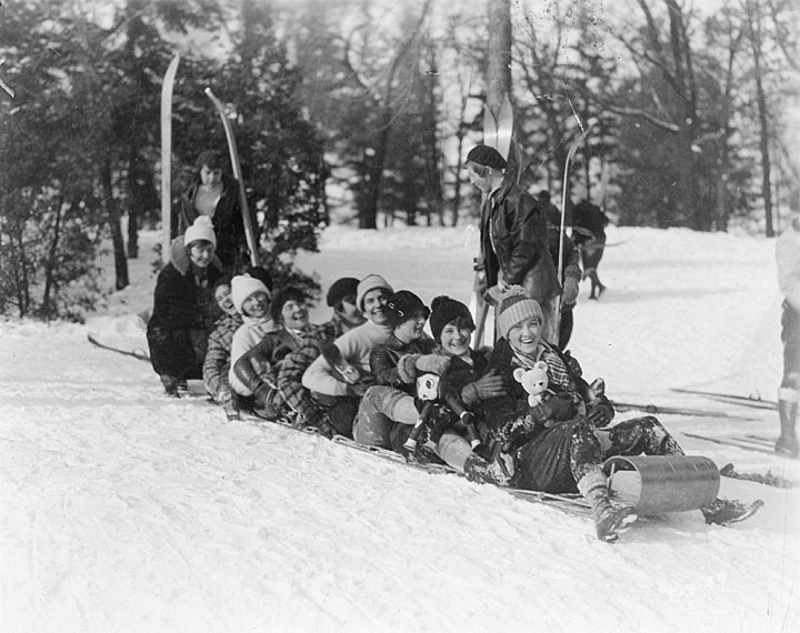 Tobogganing on the University of Wisconsin--Madison campus. The UW Toboggan Club built a run from Observatory Hill to Lake Mendota in 1886. In January 1911, a new wooden run opened which was 600 feet long and 3 feet wide, with an additional 600 feet cleared out onto the lake. Hoofers replaced the wooden structure with a concrete shute in 1933, which was demolished in 1939 to make way for Elizabeth Waters Hall. University of WIsconsin Digital Collections